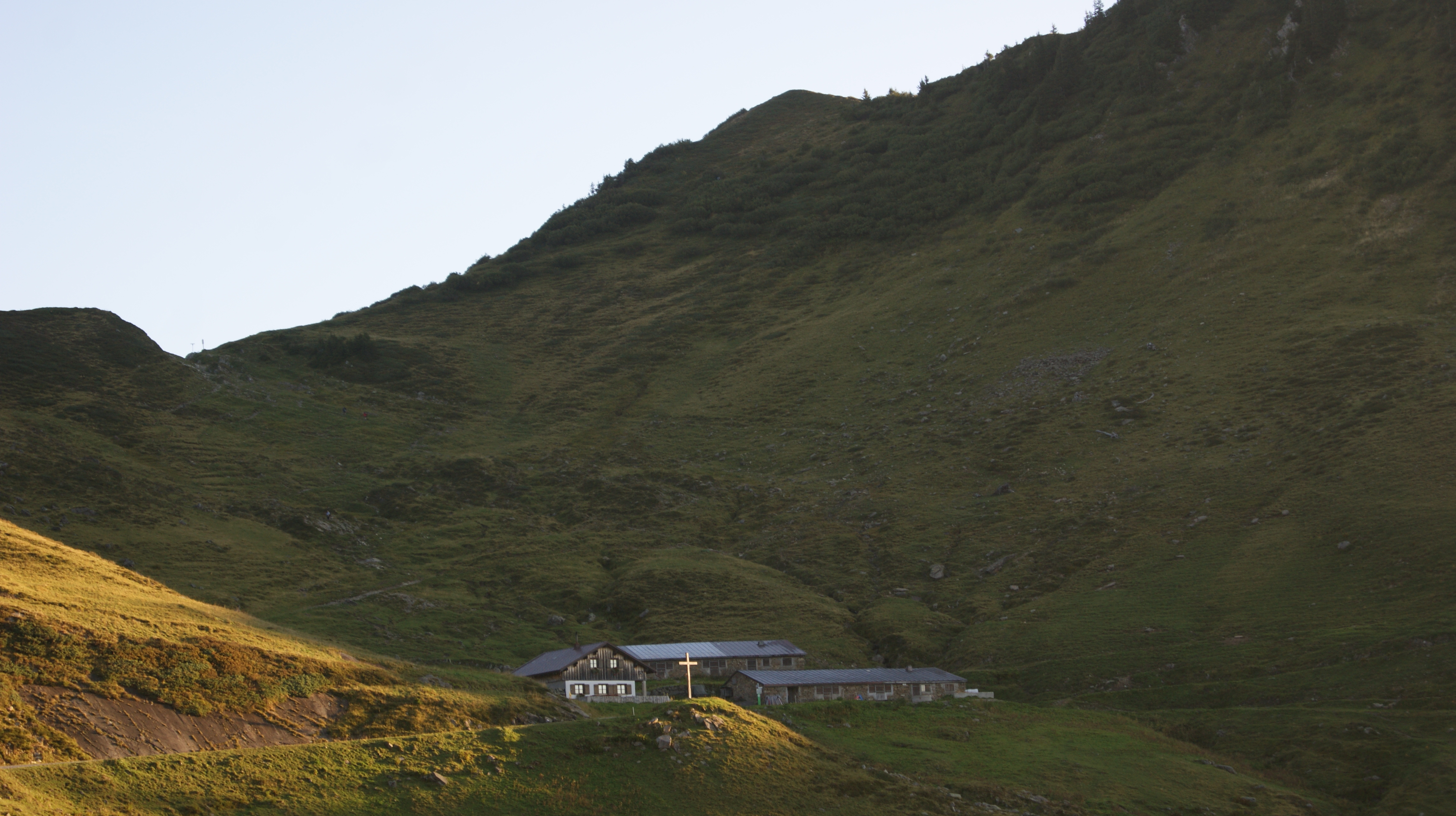 Alp Portla in Damüls, Vorarlberg, Austria at 1720 masl. Only in the summer farmed. In the background the "Fürkele" (meaning: small ridge / small pass), with the transition to the Alpe Süns. The ascent to the Portlakopf (1905 masl) on the right. At the road, to the left, a rocks polishd by glaciers.